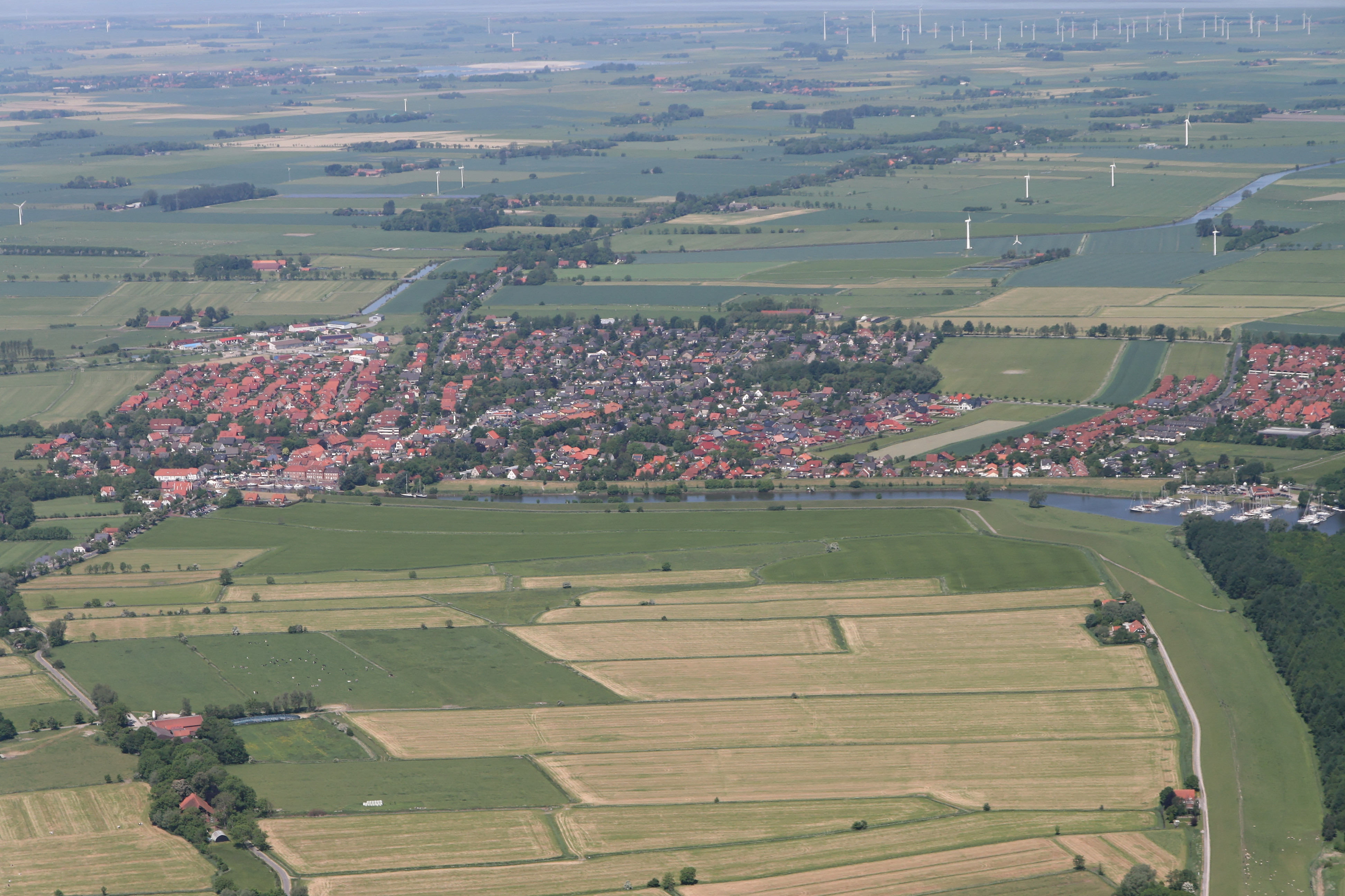 A aerial photograph of a unidentified location.